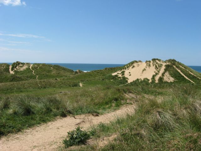 Back of the dunes at Freshwater West Taken from the northern of the two car parks.